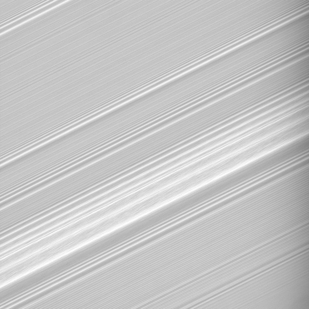 This high-resolution view shows incredible detail within a spiral density wave in Saturn's A ring. A spiral density wave is a spiral-shaped massing of particles that tightly winds many times around the planet. These waves decrease in wavelength with increasing distance from the planet. The wave that covers a broad strip across the center of the image is created by a gravitational resonance with the moon Janus. For every sixth orbit of the ring particles at this radius from Saturn, Janus makes five orbits, meaning that the moon is continually providing a gravitational kick to particles in this region of the rings. A couple of the peaks in the broad Janus-created wave appear bunched together, possibly owing to Janus' orbit being changed when it swaps places with its co-orbital moon Epimetheus (see PIA08170). This view looks toward the sunlit side of the rings from about 34 degrees below the ringplane. The image was taken in visible light with the Cassini spacecraft narrow-angle camera on July 21, 2008. The view was acquired at a distance of approximately 170,000 kilometers (106,000 miles) from Saturn. Image scale is 669 meters (2,194 feet) per pixel. The Cassini Equinox Mission is a joint United States and European endeavor. The Jet Propulsion Laboratory, a division of the California Institute of Technology in Pasadena, manages the mission for NASA's Science Mission Directorate, Washington, D.C. The Cassini orbiter was designed, developed and assembled at JPL. The imaging team consists of scientists from the US, England, France, and Germany. The imaging operations center and team lead (Dr. C. Porco) are based at the Space Science Institute in Boulder, Colo. For more information about the Cassini Equinox Mission visit and